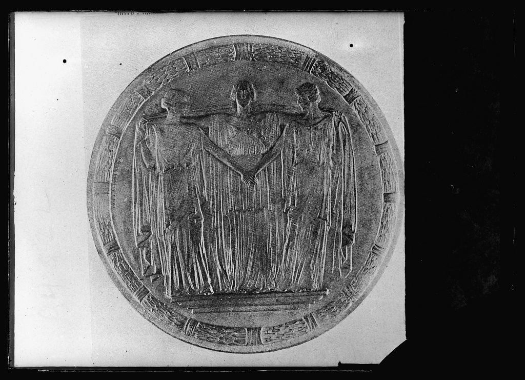 Authorized by Congress March 4, 1915